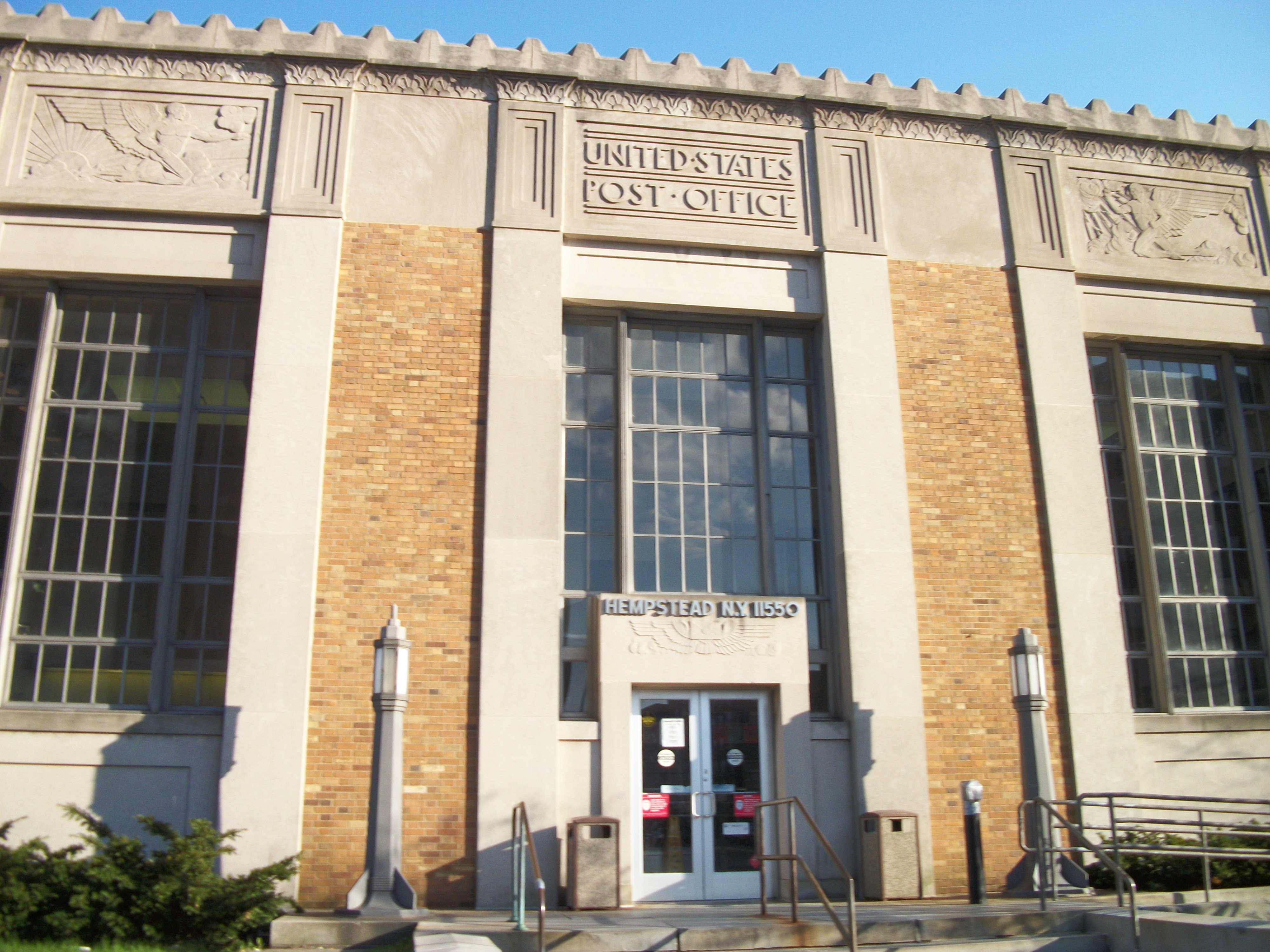 The front doors of the historic United States Post Office building in the Village of Hempstead, New York.